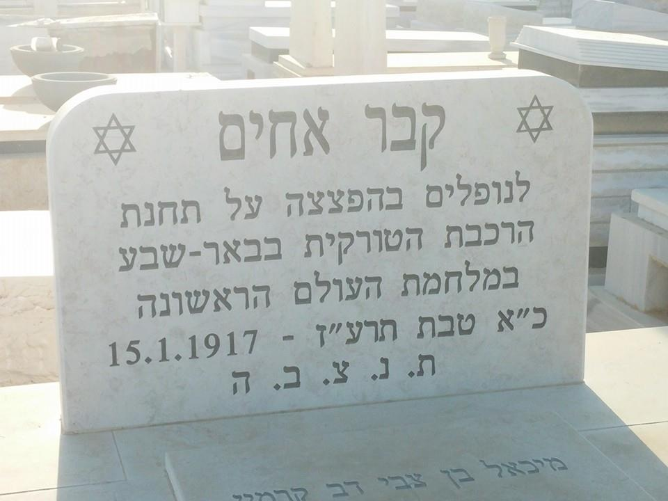 the jewish mass grave in Beersheva, Israrel